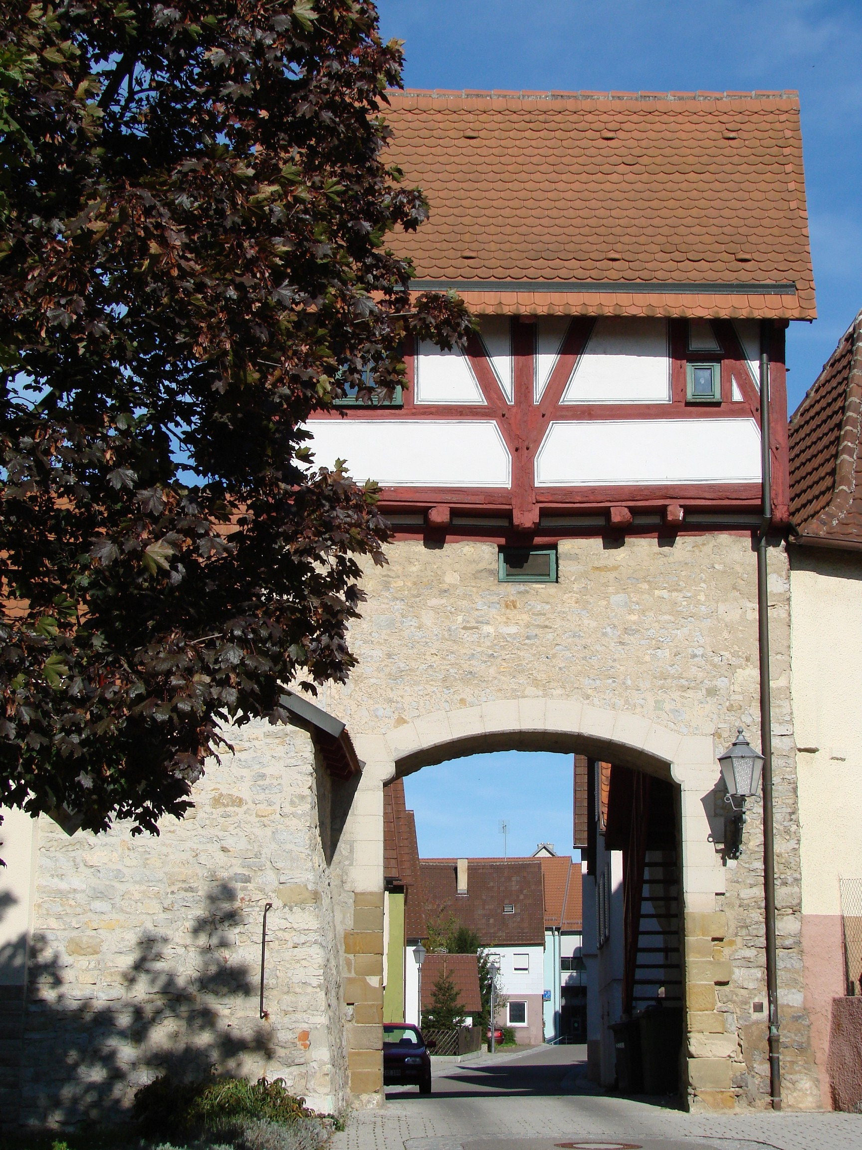 Gemmmrigheim, southern town gate